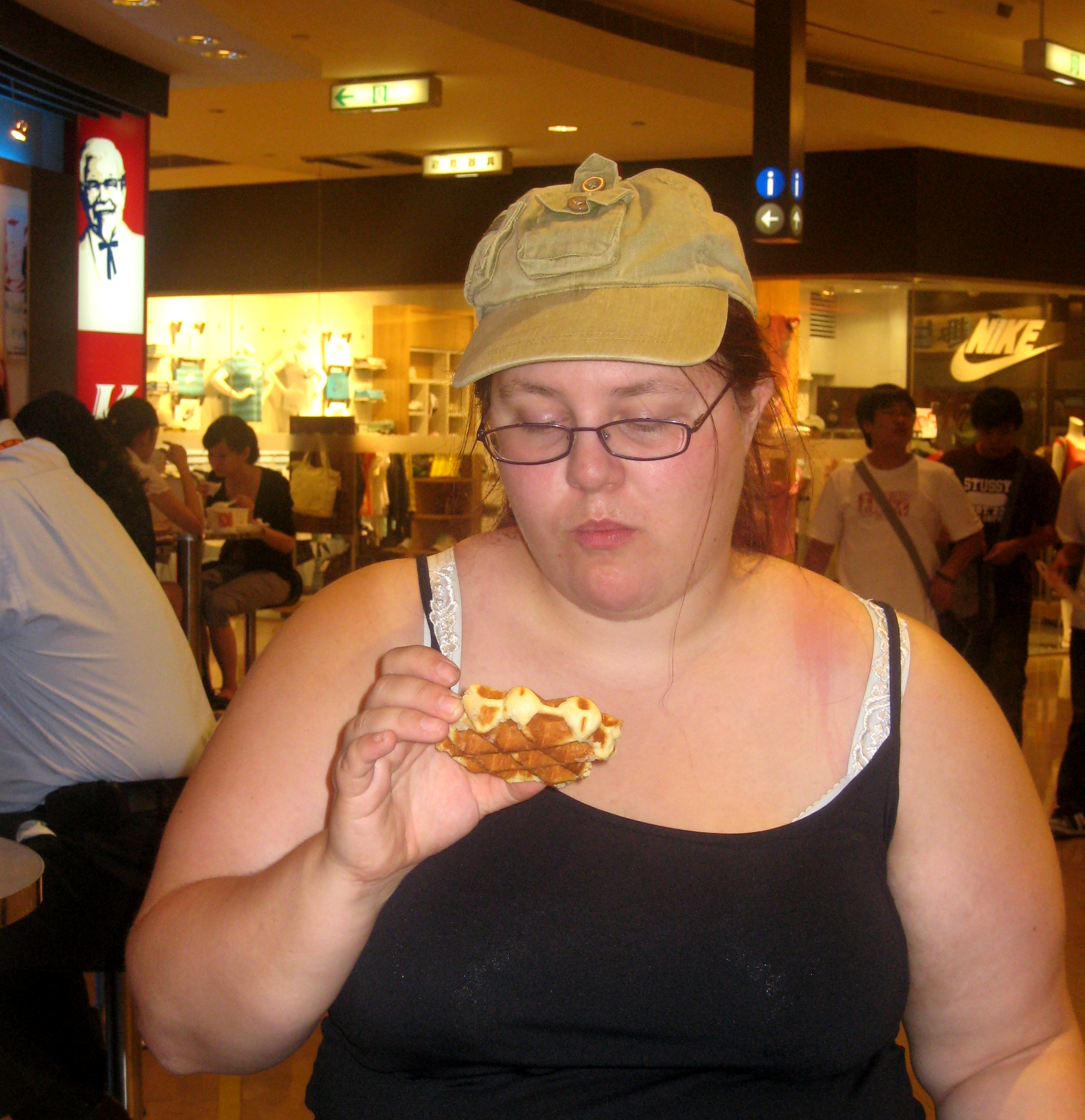 User:Henna tests the authenticity of a Belgian waffle at the food court in Taipei 101.